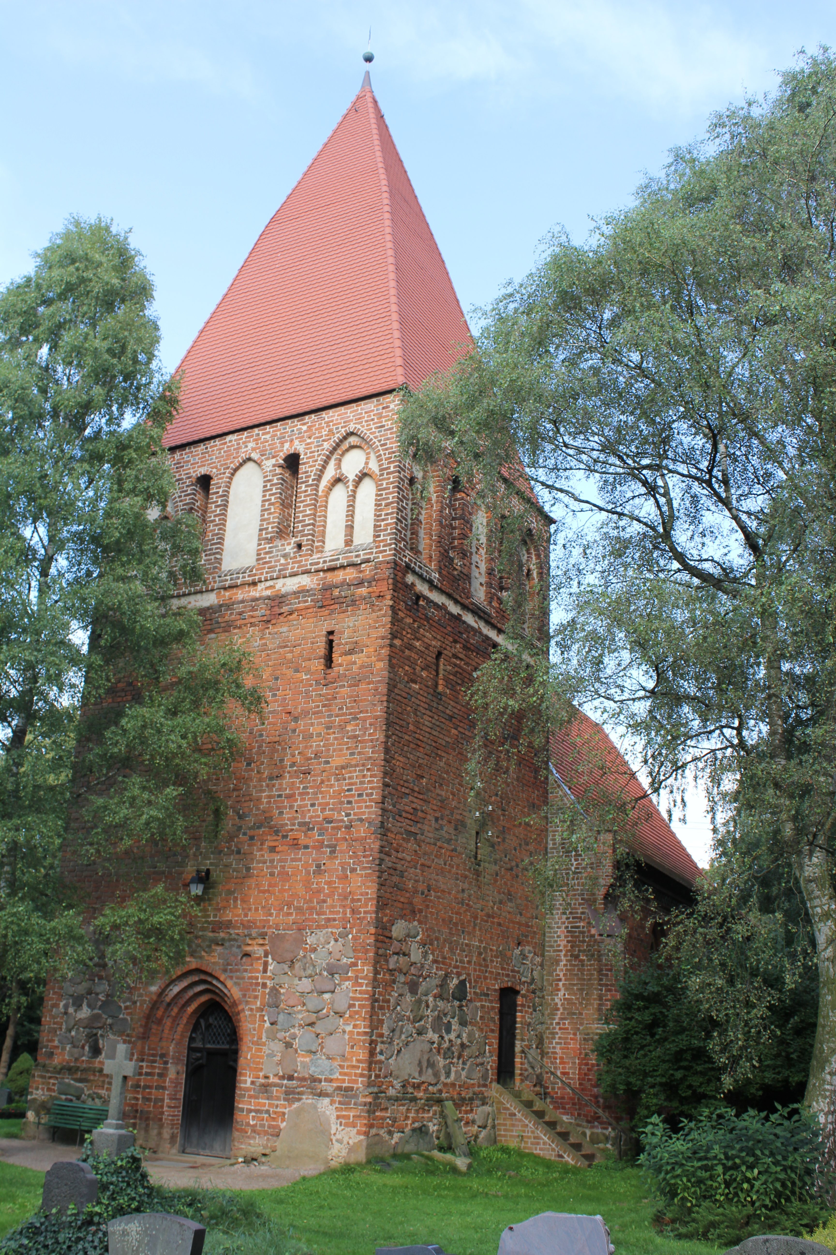 View of tower the church of Gross Varchow